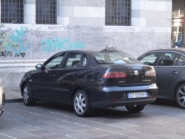 I really liked these when they first came out, they almost had an Alfa Romeo look about them from the rear. By the time these were released, Volkswagen Australia had already withdrawn SEAT from the Australian market.